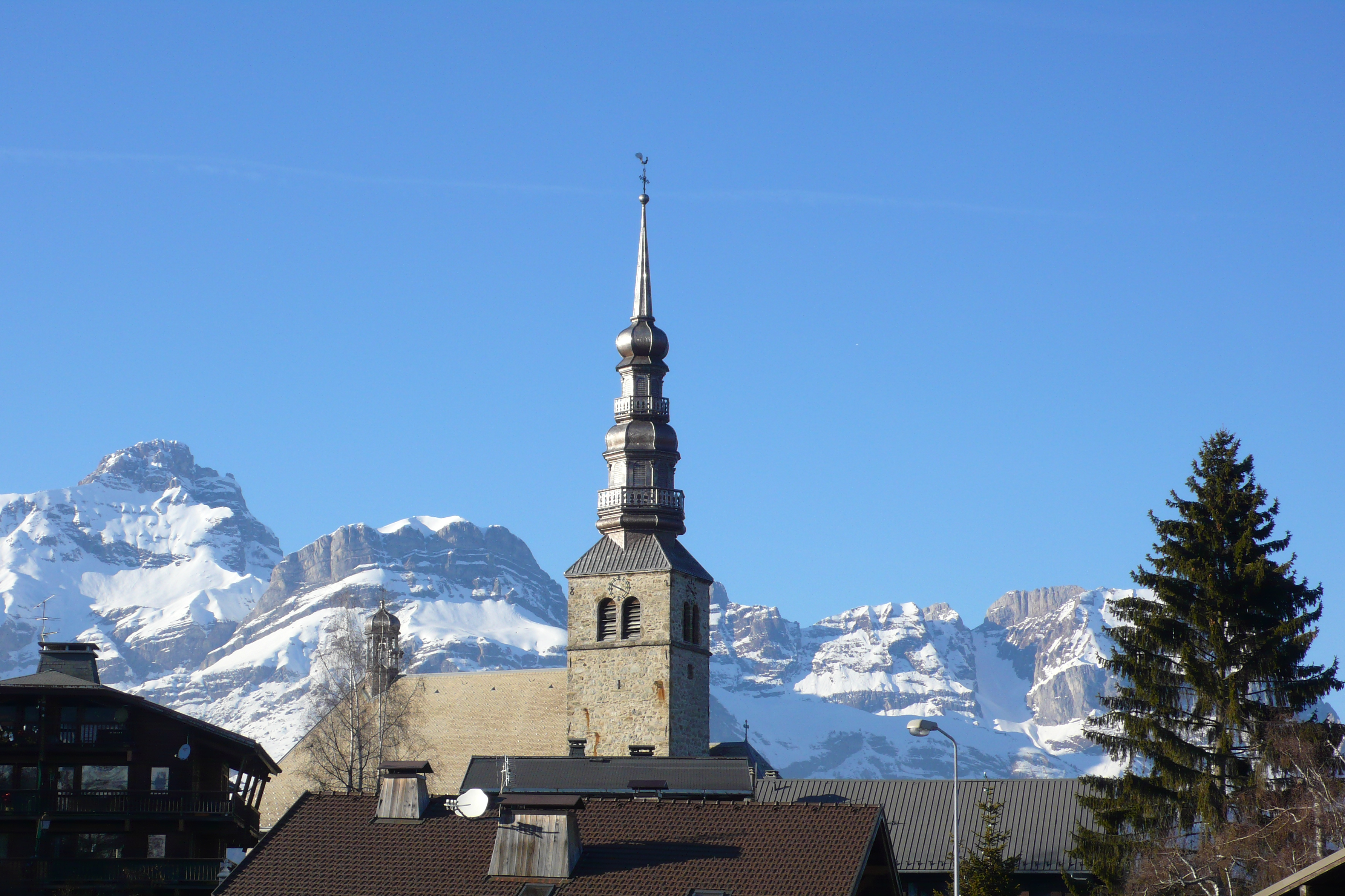 Combloux